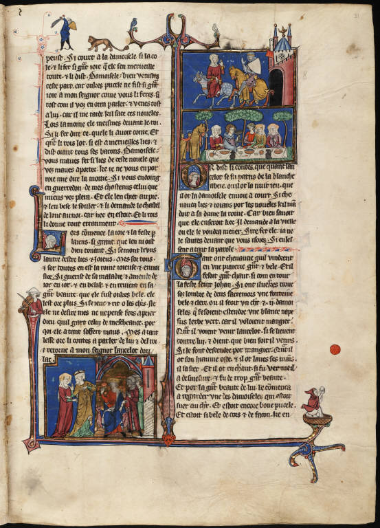 Page from the Arthurian Romances, a medieval illuminated manuscript written in northern France at the end of the 13th century. The book, written on parchment by one scribe, shows scenes of animals, musicians, jesters and archers. According to curators at Beinecke Rare Book and Manuscript Library, "The decoration of this lavishly illuminated manuscript consists of seventy-seven large column miniatures, fifty-one smaller miniatures, and thirty-six historiated initials. The miniatures and historiated initials are by at least two artists, the scale and quality of whose work distinguish the manuscript from contemporary and most fourteenth- century Arthurian manuscripts." Courtesy of the Beinecke Rare Book and Manuscript Library, Yale University, New Haven, Connecticut.